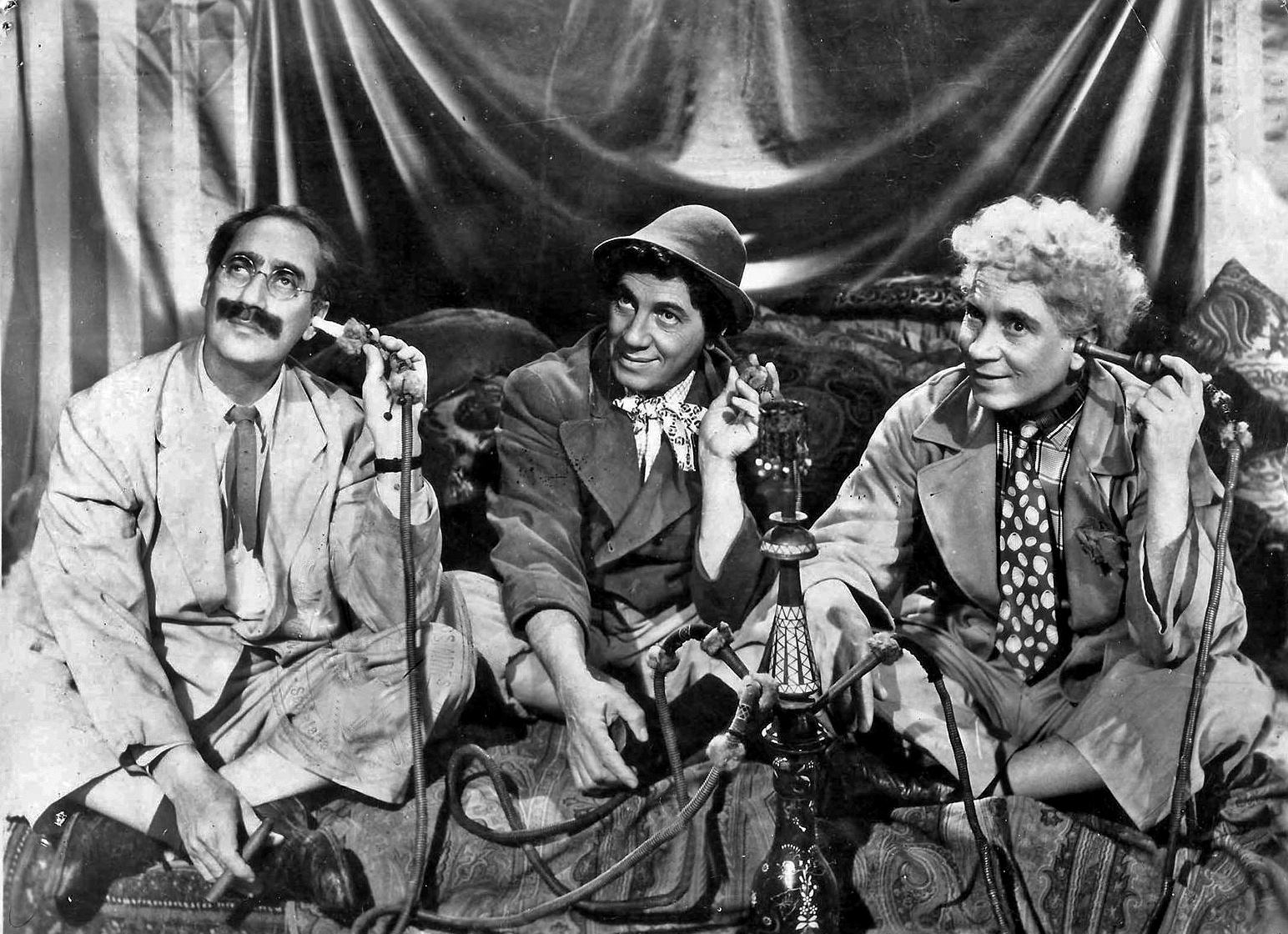 Publicity photo of the Marx Brothers in 1946.